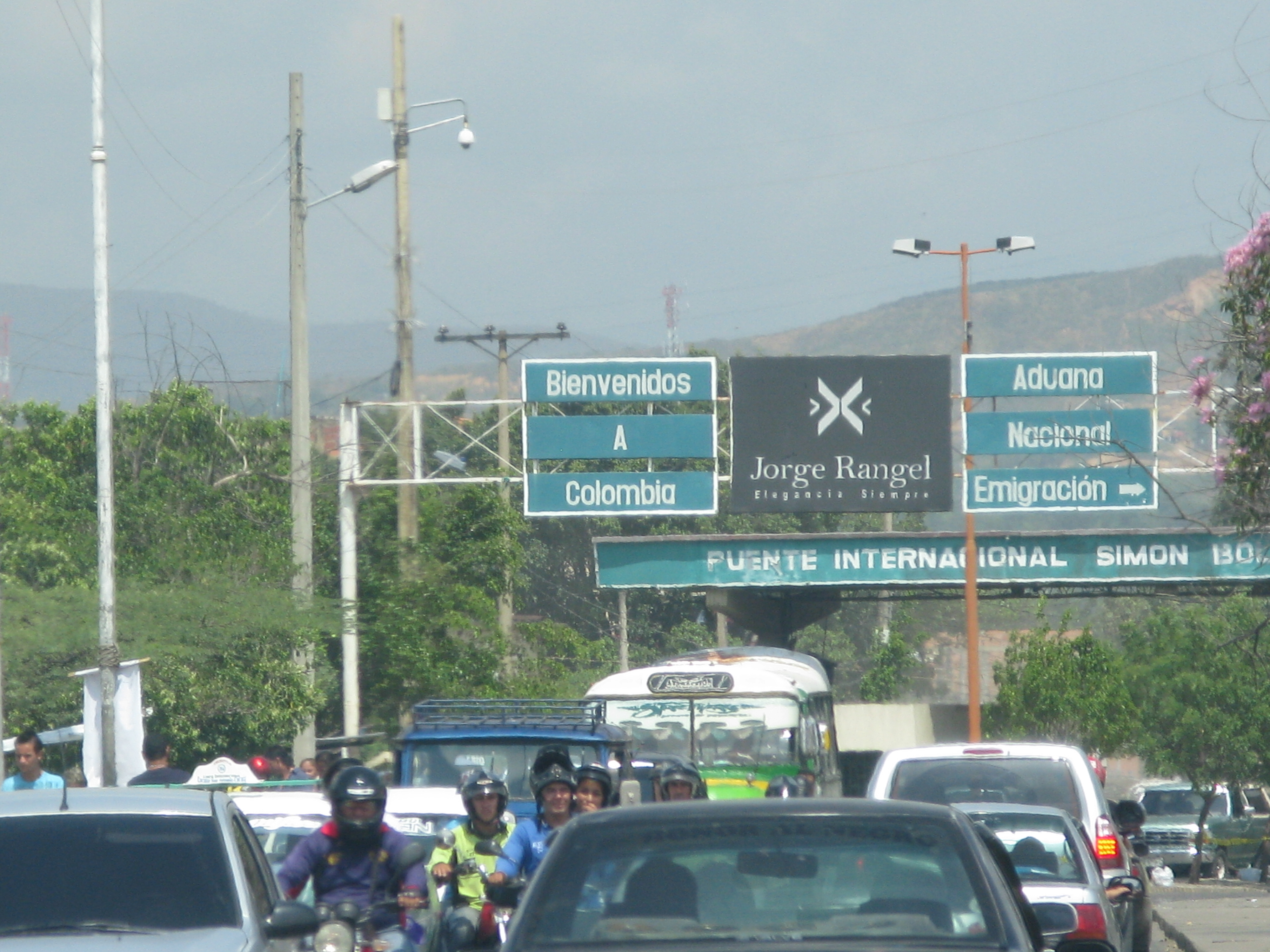 Welcome to Colombia sign